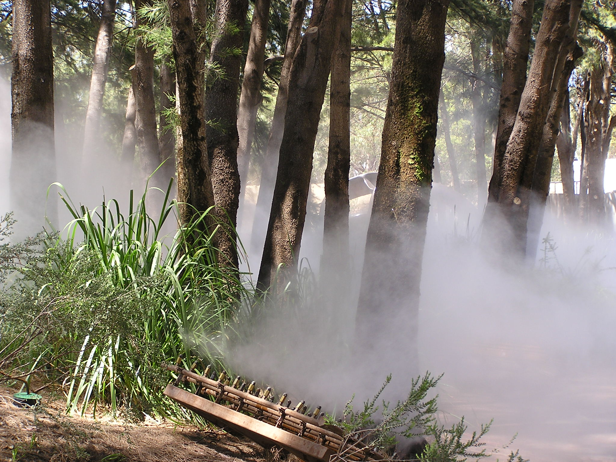 Fog sculpture, also known as Gas sculpture, at the National Gallery of Australia, Canberra. Each dat noon to 2 pm Photo taken by Black Squirrel